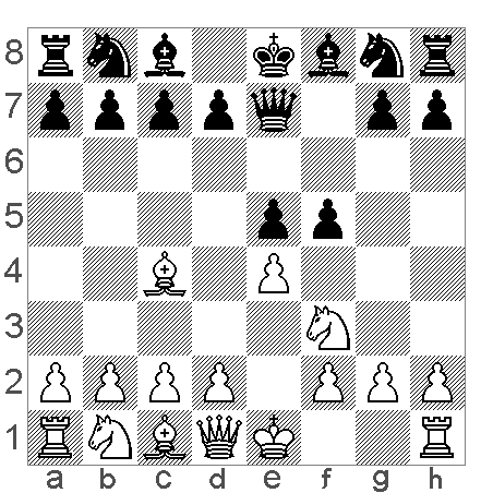 chess diagram Damiano gambit Source: CBlight + my processing